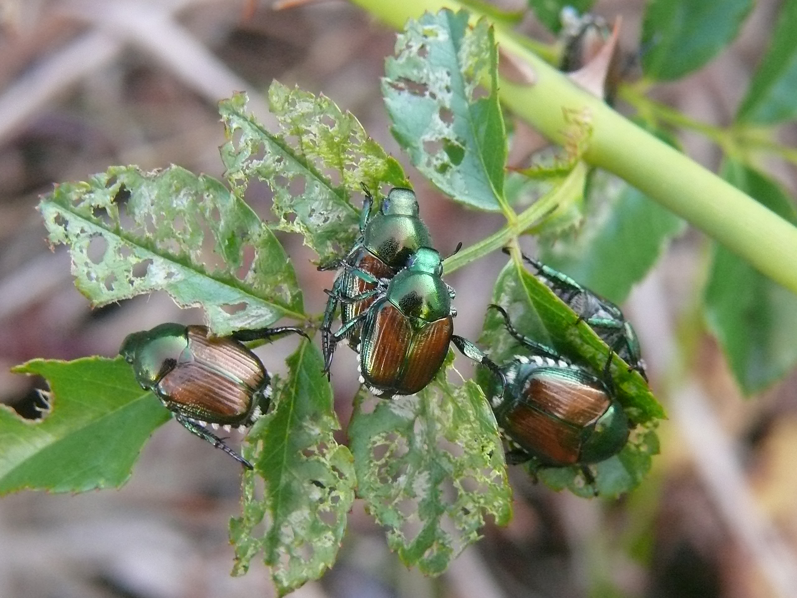 Group of Japanese beetles eating Rubus leaves